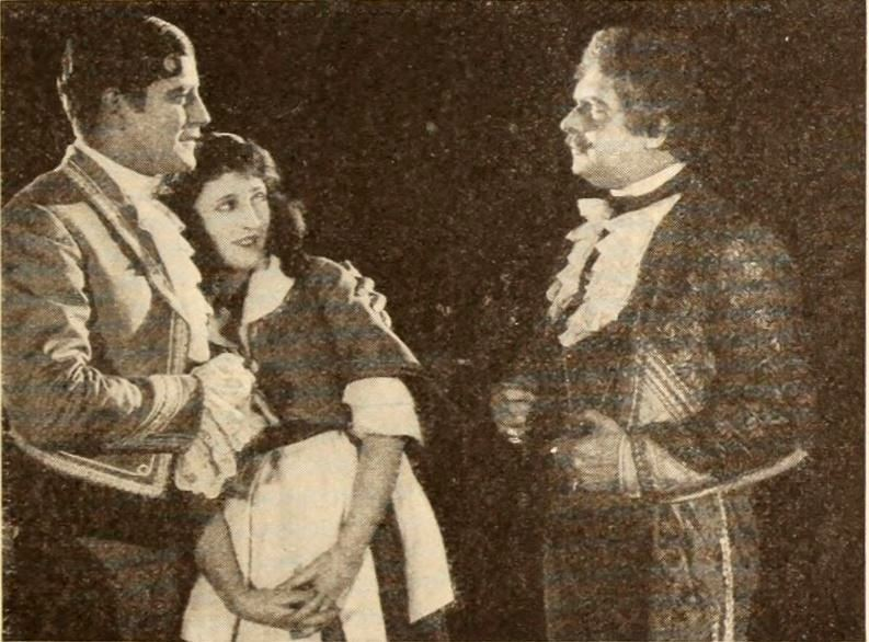 Still from the American silent film The Kiss (1921) with W. E. Lawrence, Carmel Myers and George Periolat, page 61 of the October 1921 Photoplay.